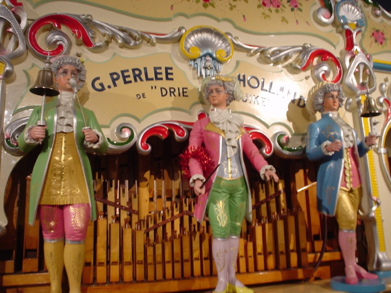 G. Pelree (Holland) street organ 1 March 2007 A street organ. These take punch card strips like looms. At the clockwork instrument museum in Utrecht.